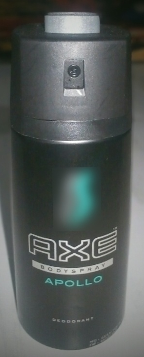 This is a deodorant of brand name of Axe. This product is of Unilever.